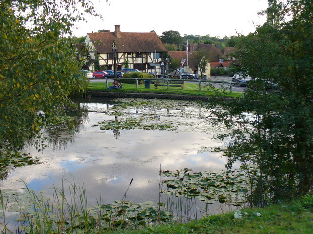 Chiddingfold Village pond and old Crown Inn.